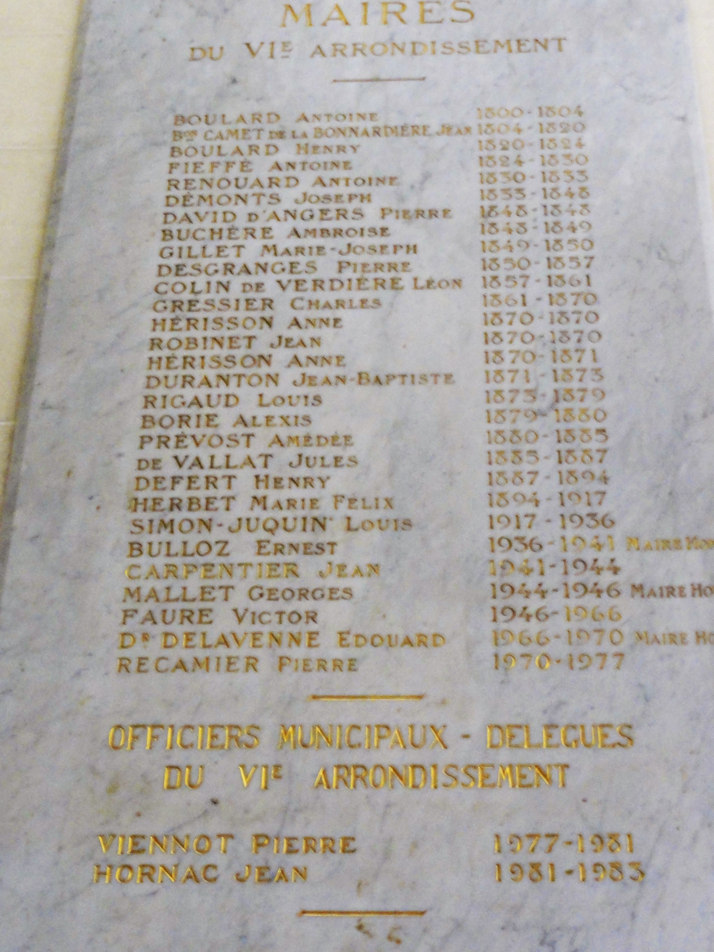 Mayors of Paris 6th arrondissement